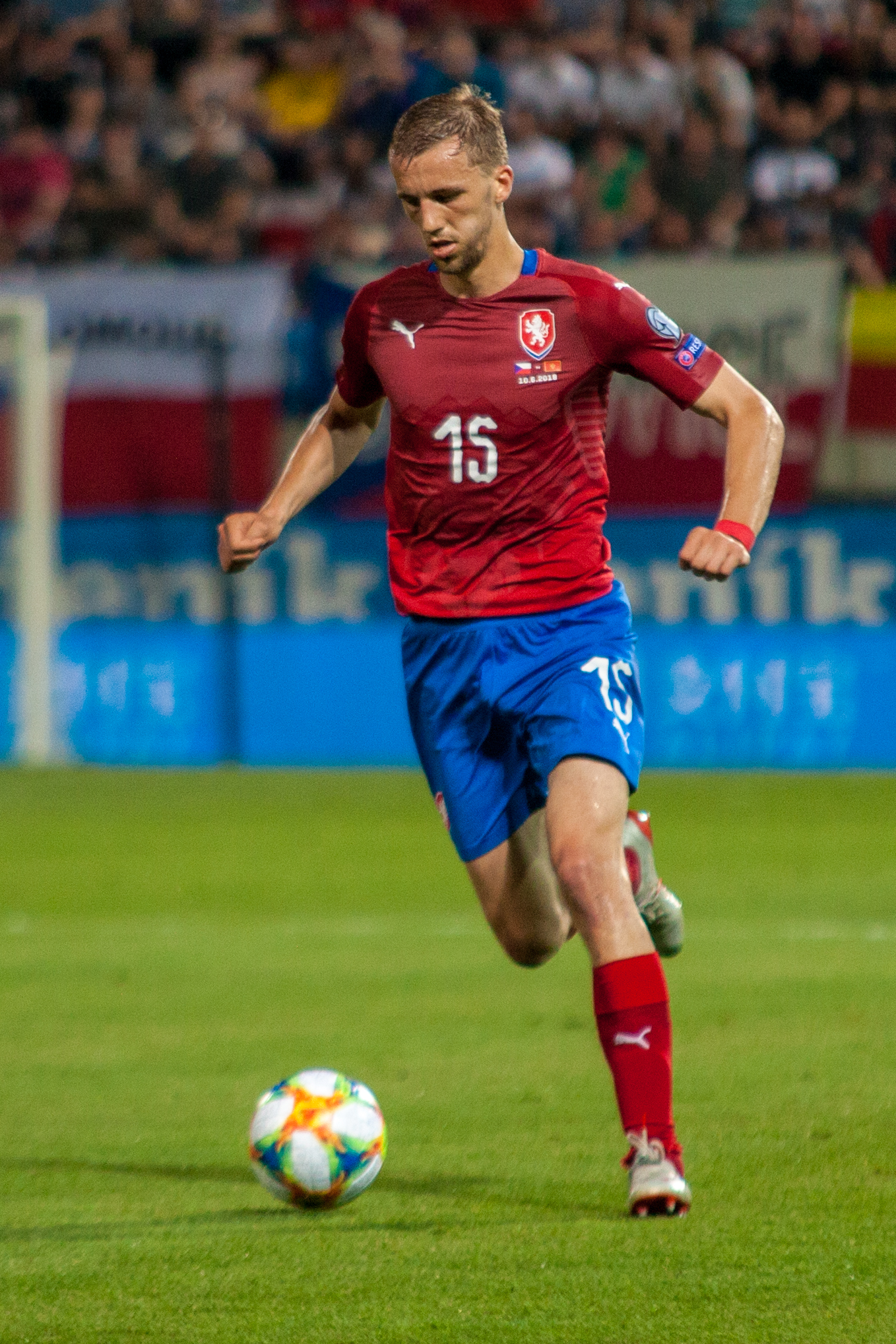 Tomáš Souček at EURO 2020 Qualifying Round Czech Republic-Montenegro (10/6/2019, Ander Stadium, Olomouc) Personality rights warningAlthough this work is freely licensed or in the public domain, the person(s) shown may have rights that legally restrict certain re-uses unless those depicted consent to such uses. In these cases, a model release or other evidence of consent could protect you from infringement claims.